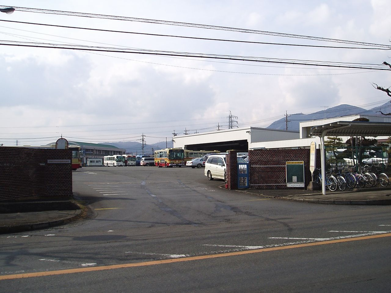 Kanachu Isehara Branch